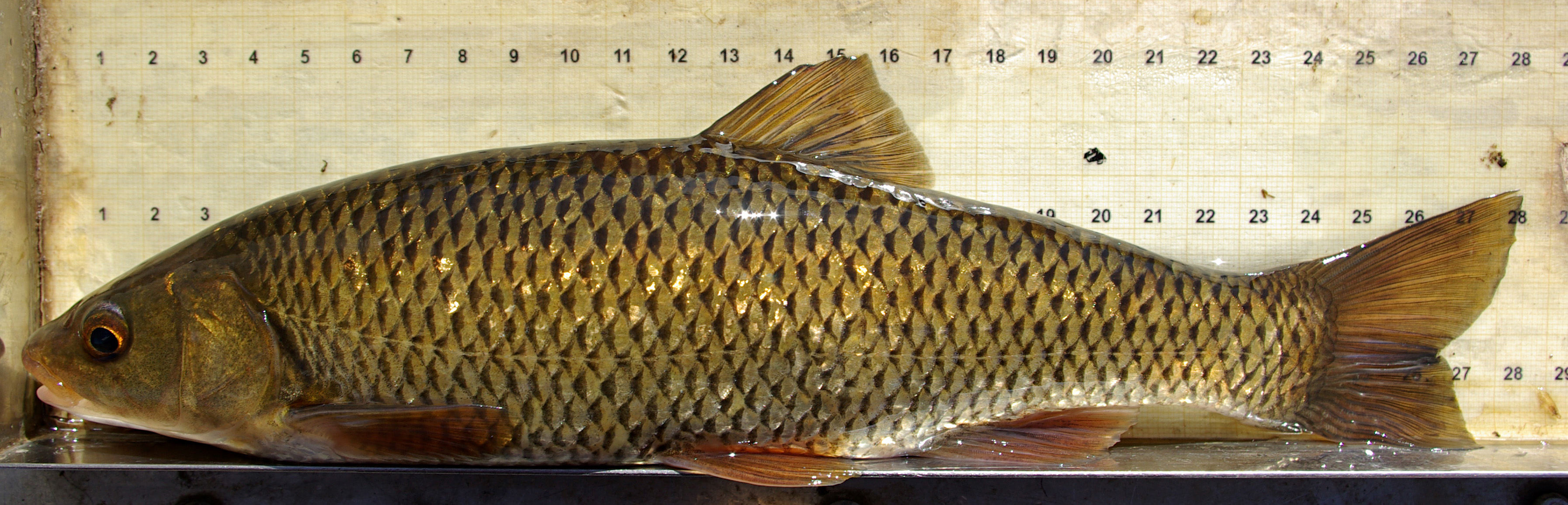 Squalius carolitertii near Riaño, León (Spain)